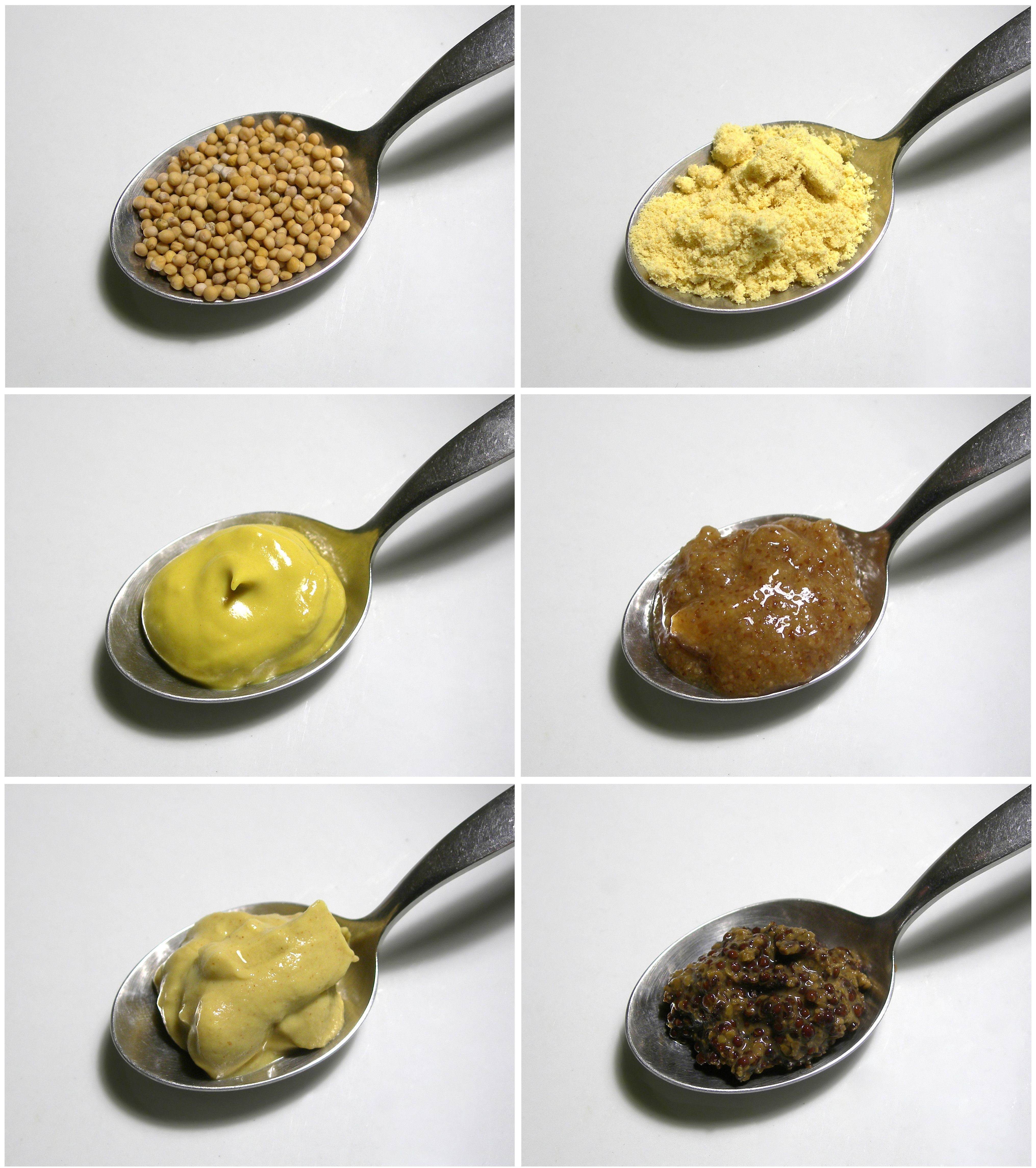 Collage of six mustard-related pictures: upper left: white mustard seeds upper right: white mustard, ground center left: simple table mustard, with turmeric coloring center right: Bavarian sweet mustard lower left: Dijon mustard lower right: Rough French mustard made mainly from black mustard seeds